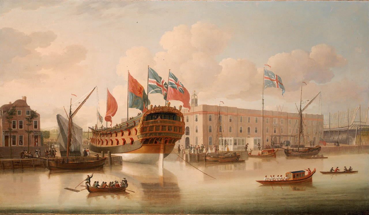 The painting shows the 'St Albans', 60 guns man-of-war built at the Royal Dockyard, Deptford in 1747. It is depicted being floated out of her building dock, flying the Admiralty flag, the Royal Standard, Union flag and a red ensign. The building to the left with trees in front of it, and a female figure standing in the doorway wearing an apron, is the master shipwright's house. This was built for the Master Shipwright at Deptford, Joseph Allen, in 1708, together with the dockyard offices built around 1710. The building to the right, with the clock tower and bearing the royal coat of arms on its façade, is the Great Storehouse. Deptford became the headquarters of naval victualling and supply in 1742 which it remained until after the Second World War. To the right a keg is shown being loaded and the artist has included a host of other details and shipping along the quayside, together with a variety of figures specifically positioned to draw attention to shipping and other associated activities. On the far right a ship in the early stages of construction is visible and on the river small craft pass by, including an official barge.[1] ↑ NMM